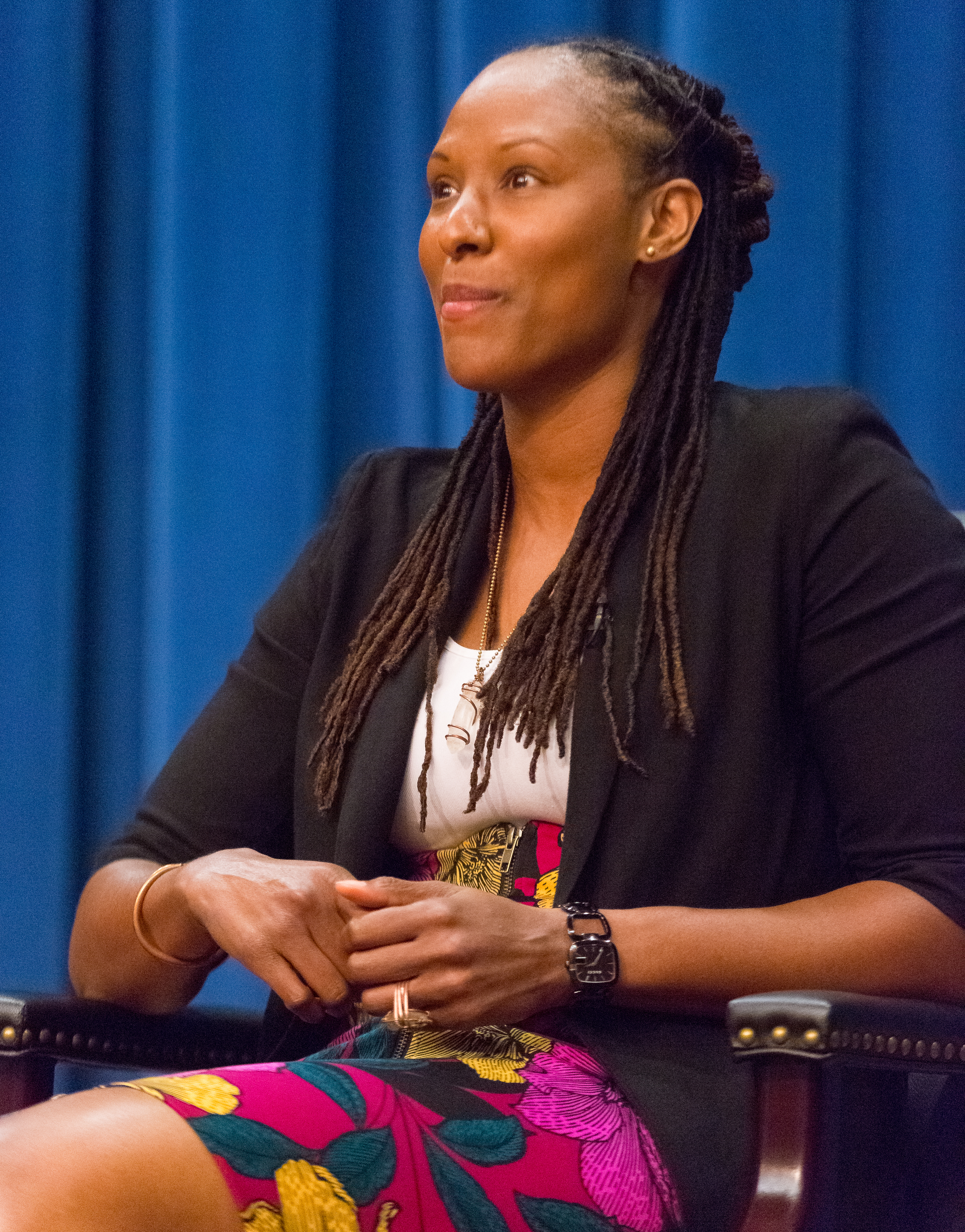 10th August 2016 - Washington, D.C. - U.S. Secretary of Labor Thomas Perez gives remarks at DOL’s 26th Anniversary Celebration of the Americans with Disabilities Act (ADA). Chamique Holdsclaw&Rick Goldsmith show third film “MIND/GAME: The Unquiet Journey of Chamique Holdsclaw” followed by Q&A.***Official Department of Labor Photograph***Photographs taken by the federal government are generally part of the public domain and may be used, copied and distributed without permission. Unless otherwise noted, photos posted here may be used without the prior permission of the U.S. Department of Labor. Such materials, however, may not be used in a manner that imply any official affiliation with or endorsement of your company, website or publication.Photo Credit: Department of LaborShawn T Moore